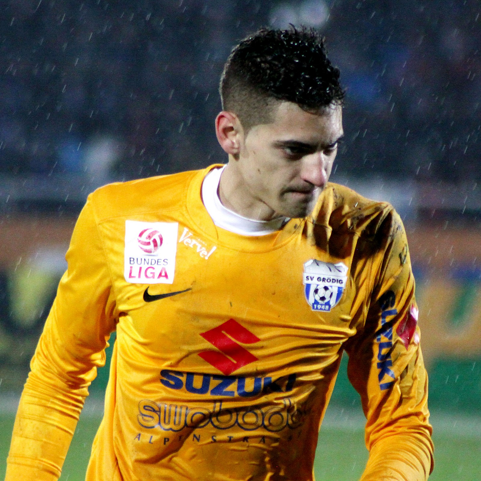 Austrian Football Bundesliga: SC Wiener Neustadt vs. SV Grödig (0:2) at 2013-11-23 in the Stadion Wiener Neustadt. – The photo shows Cican Stankovic (SV Grödig).